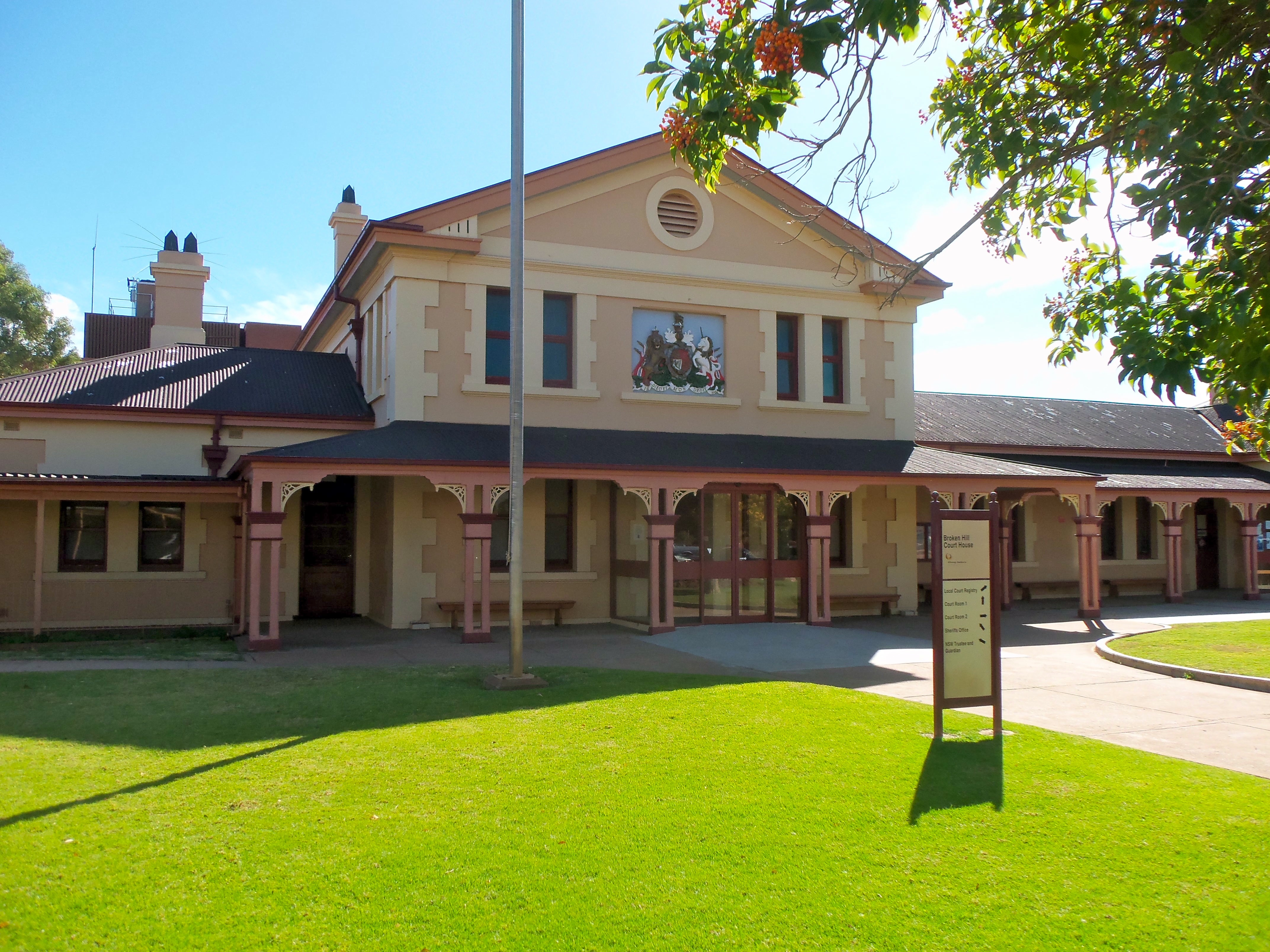 Court house in Broken Hill, New South Wales.